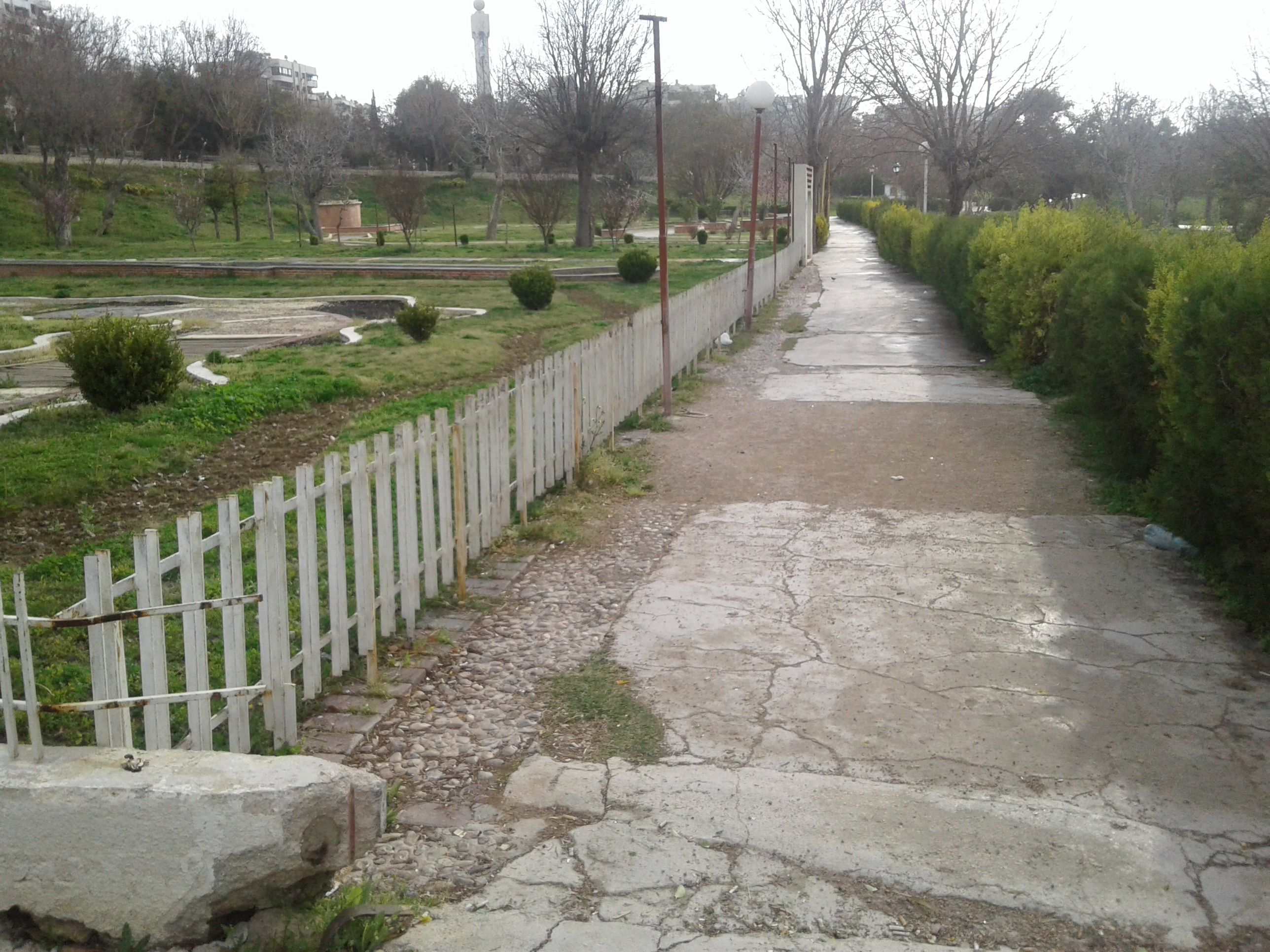 صورة لحديقة تشرين، صورتها بالقرب من مدخل أرض كيوان وبالقرب من الجمعيّة المعلوماتيّة السوريّة.